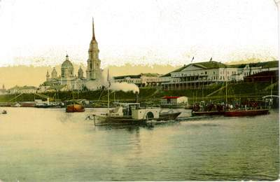 A 19th-century postcard with a view of Rybinsk